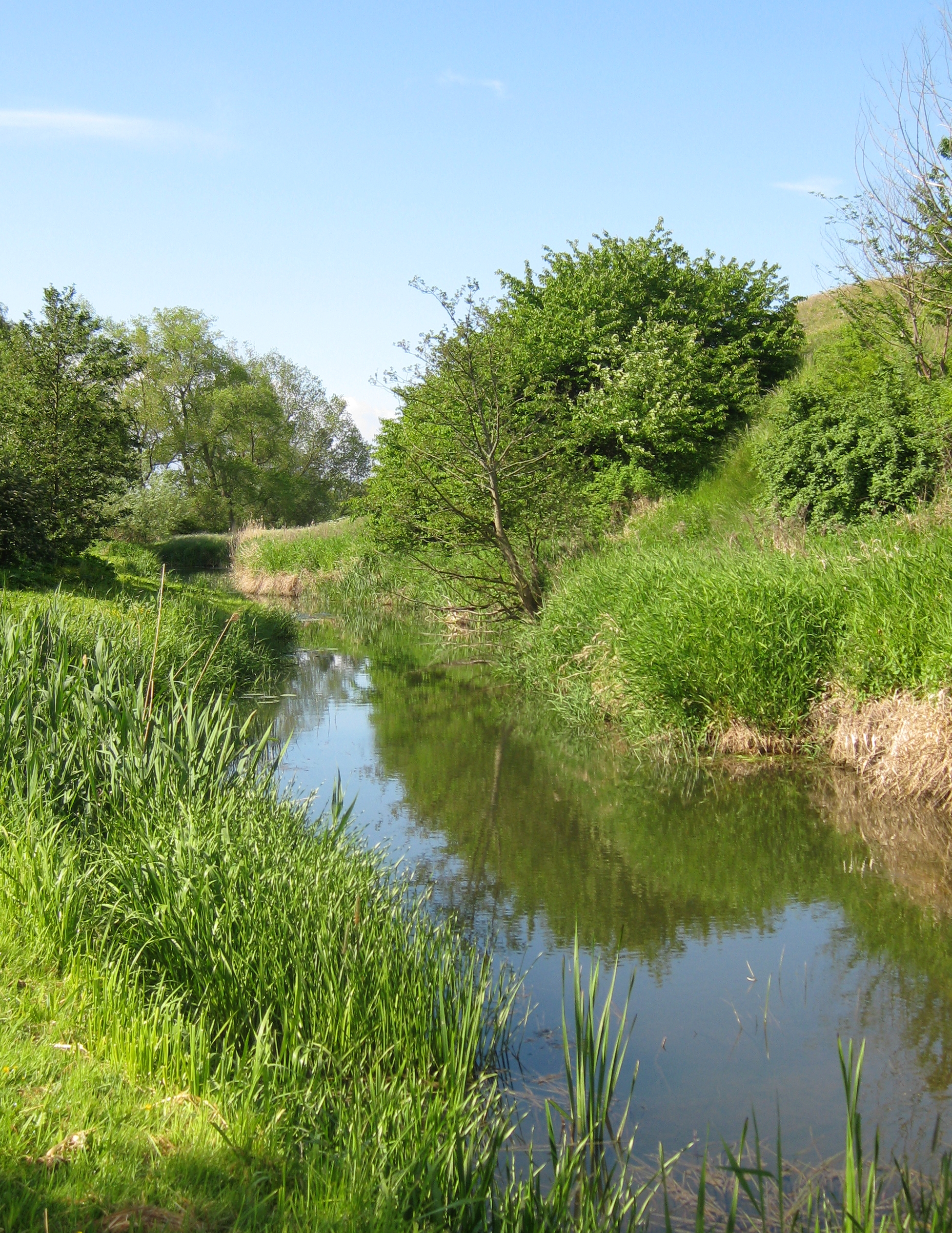 Skivarpsån in Skurup municipality, Sweden